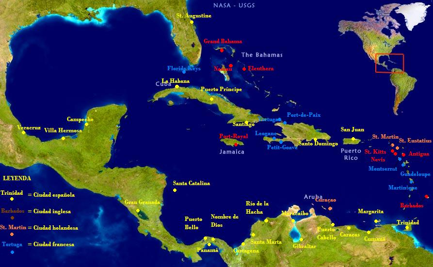 a map of the towns in the game Sid Meier's Pirates! Made For I